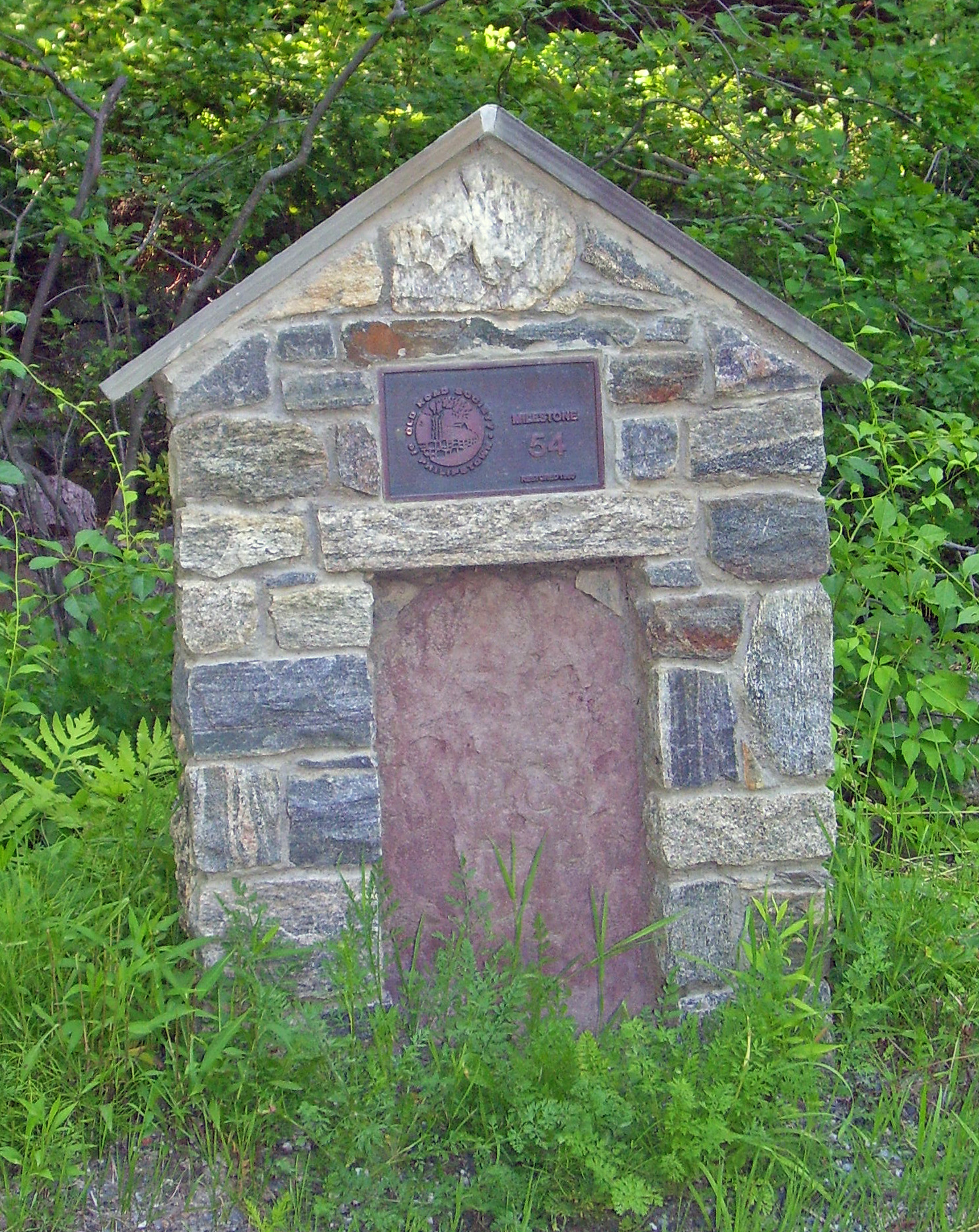 Milestone 54 on the Old Albany Post Road in Philipstown, NY, USA